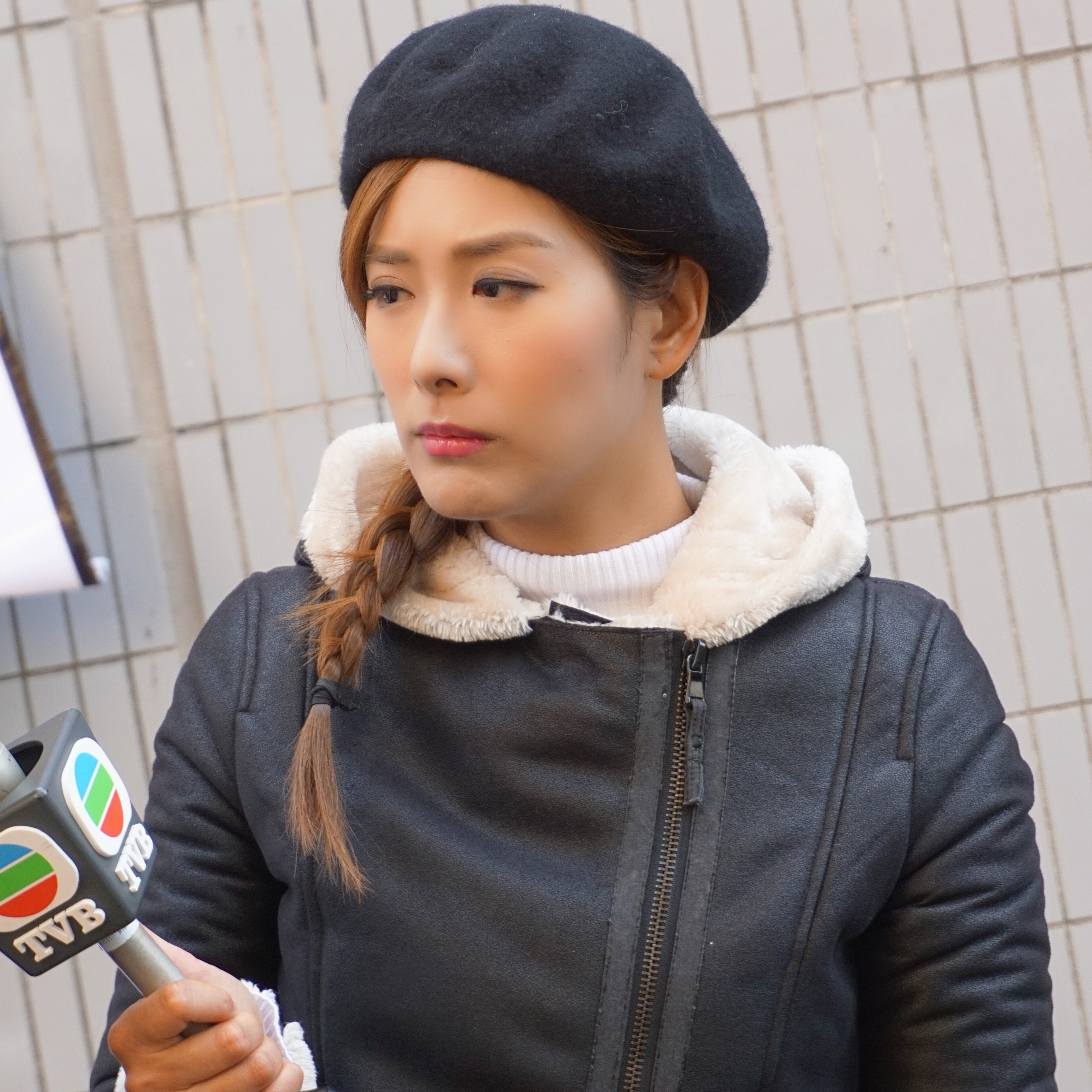 Amy Ng